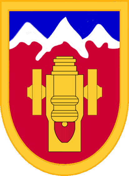 The 169th Fires Brigade's shoulder sleeve insignia (SSI).